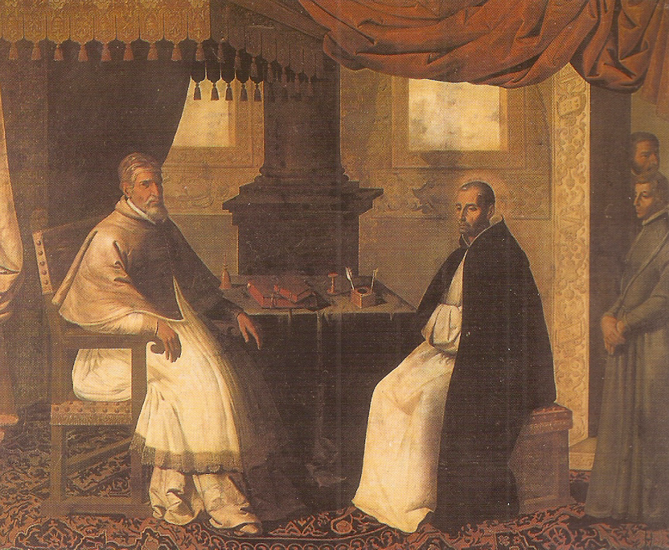 Bruno of Segni with Urban II